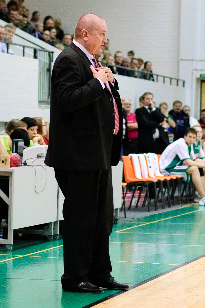 Finnish basketball coach Jarmo Laitinen of Lappeenrannan NMKY during a game against KTP-Basket at Steveco Areena in Kotka, Finland. KTP-Basket won the Finnish Basketball league playoff game 106-70 and advanced to the semi-final round by winning the series 3-0.